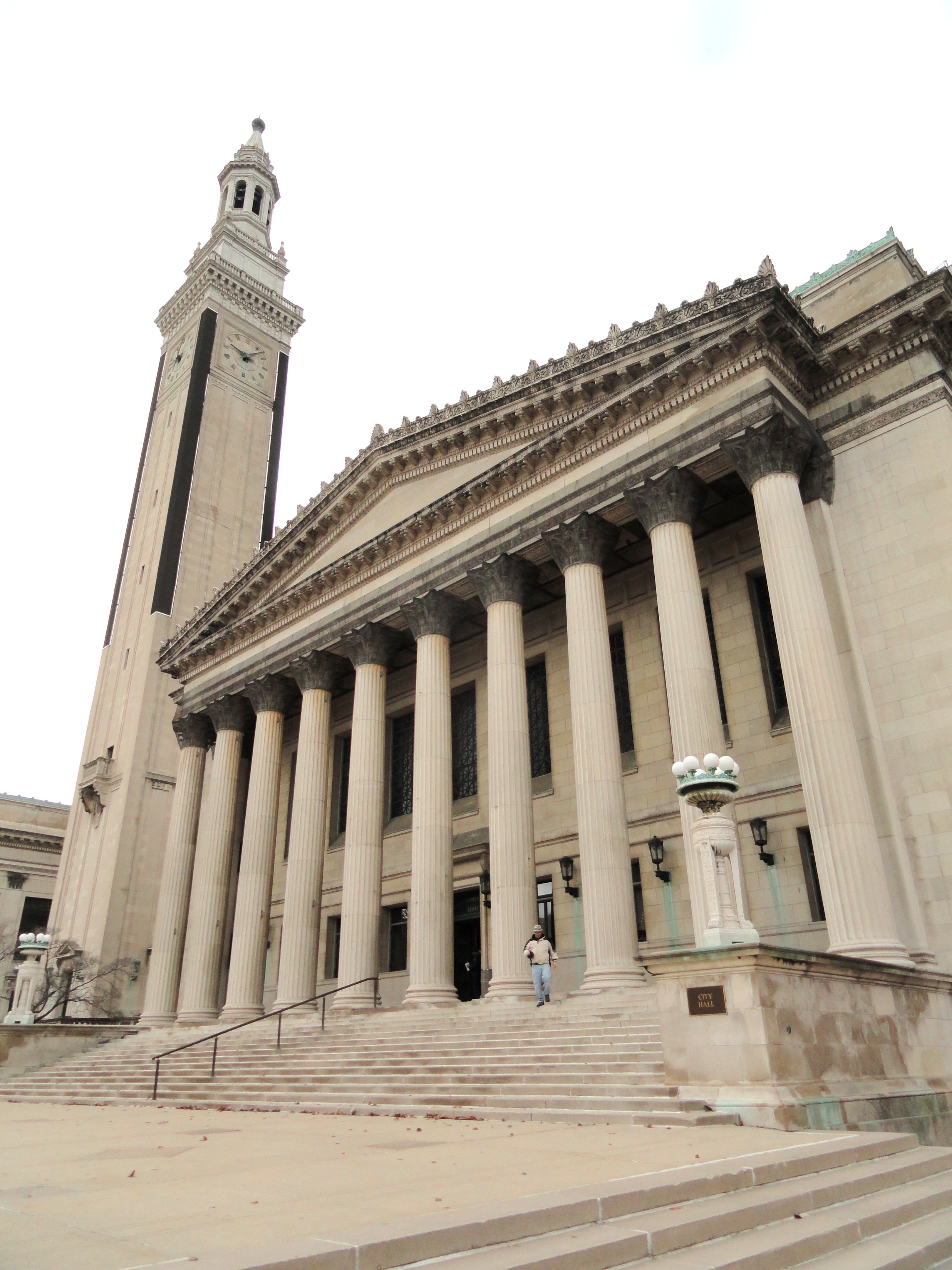 City Hall - 36 Court Street, Springfield, Massachusetts, USA. Architect: Charles Edward Parker.